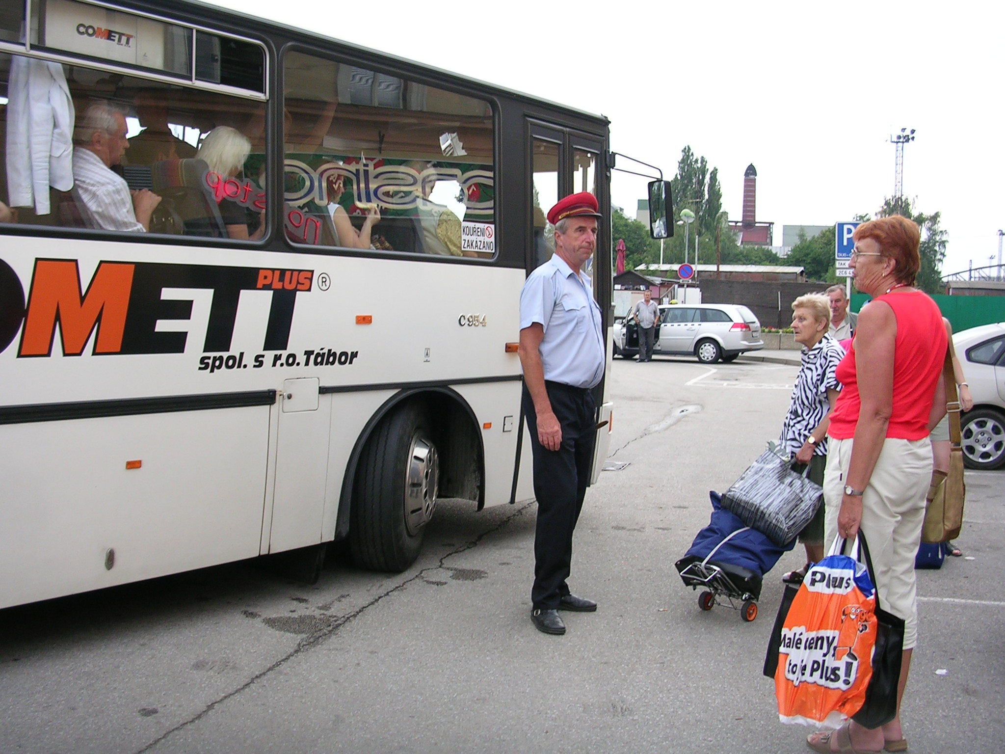 Tábor, the Czech Republic. Train dispatcher is organising a departure of a substitute bus.